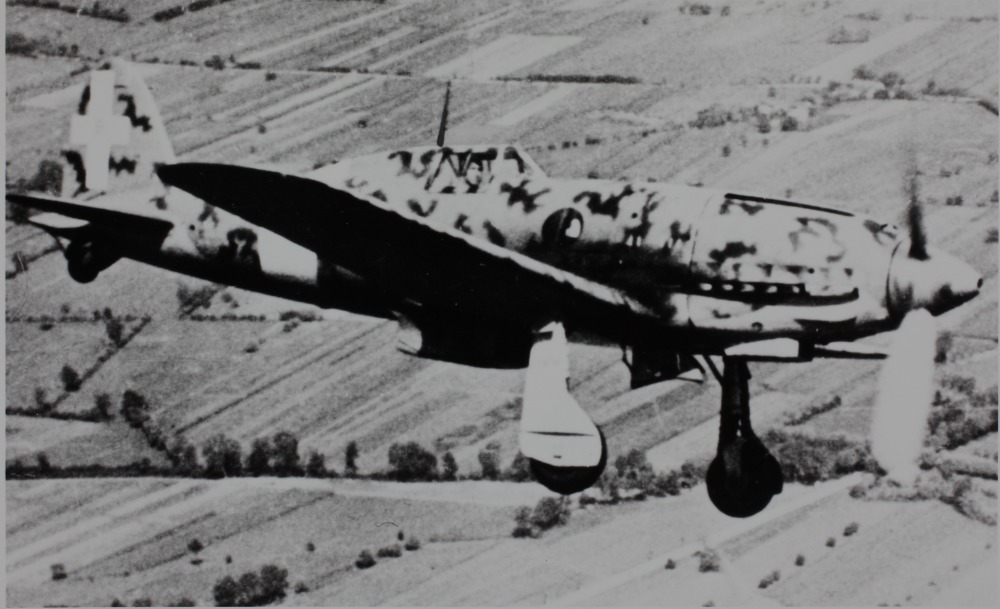 PictionID:42002876 - Title:Macchi MC-202 - Catalog:15_003025 - Filename:15_003025.TIF - Image from the Charles Daniel's Collection Italian Aircraft Album.Repository: San Diego Air and Space Museum Archive